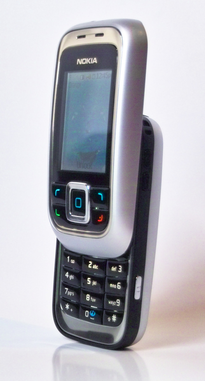 Nokia 6111, photographed by ed g2s • talk.